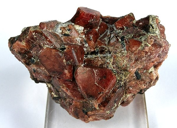 Eudialyte Locality: Khibiny Massif, Kola Peninsula, Murmanskaja Oblast', Northern Region, Russia (Locality at ) Size: 4.5 x 3.1 x 2.9 cm. Sharp, lustrous, partially gemmy, carmine-red crystals of eudialyte richly and aesthetically cover solid eudialyte matrix on this excellent specimen from the famed Khibiny Massif of the Kola Peninsula, Russia. The centrally located, 1.1 cm crystal has textbook crystal form and is a stunner. Eudialyte is a rare zirconium silicate and this is a highly representative specimen for the species and locality. Old material from the early 1990s.